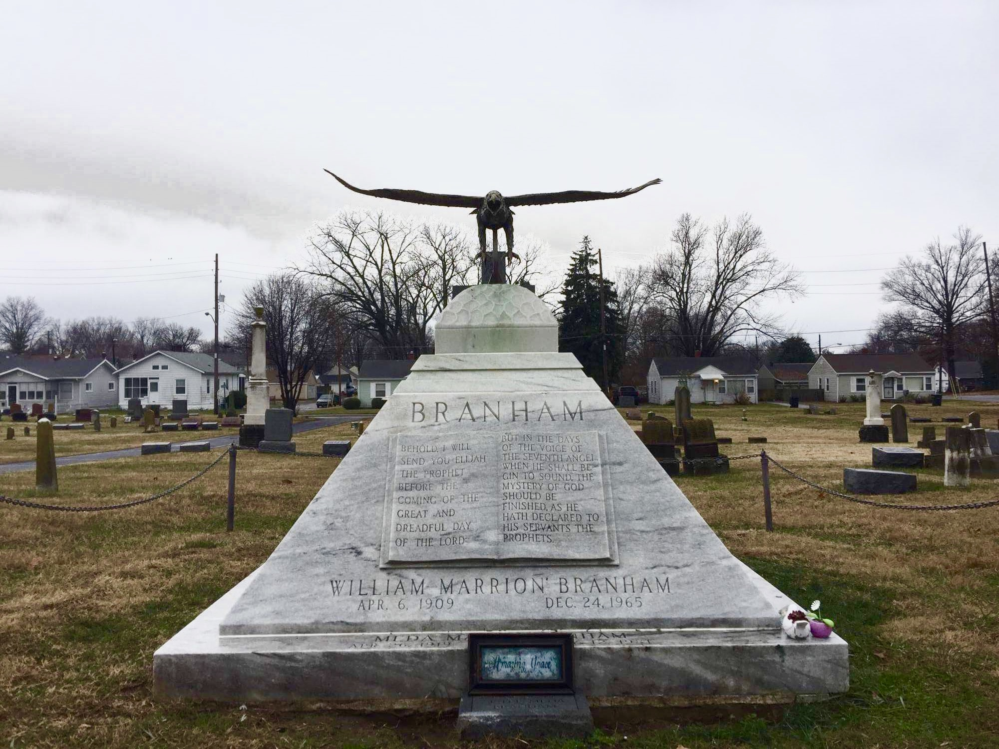 This is a photograph of the grave of William M. Branham in Jeffersonville, Indiana